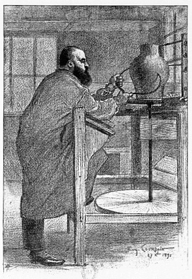 French ceramist Auguste Delaherche (1857-1940) in his workshop (1891) by Eugène Courboin (1851-1915)